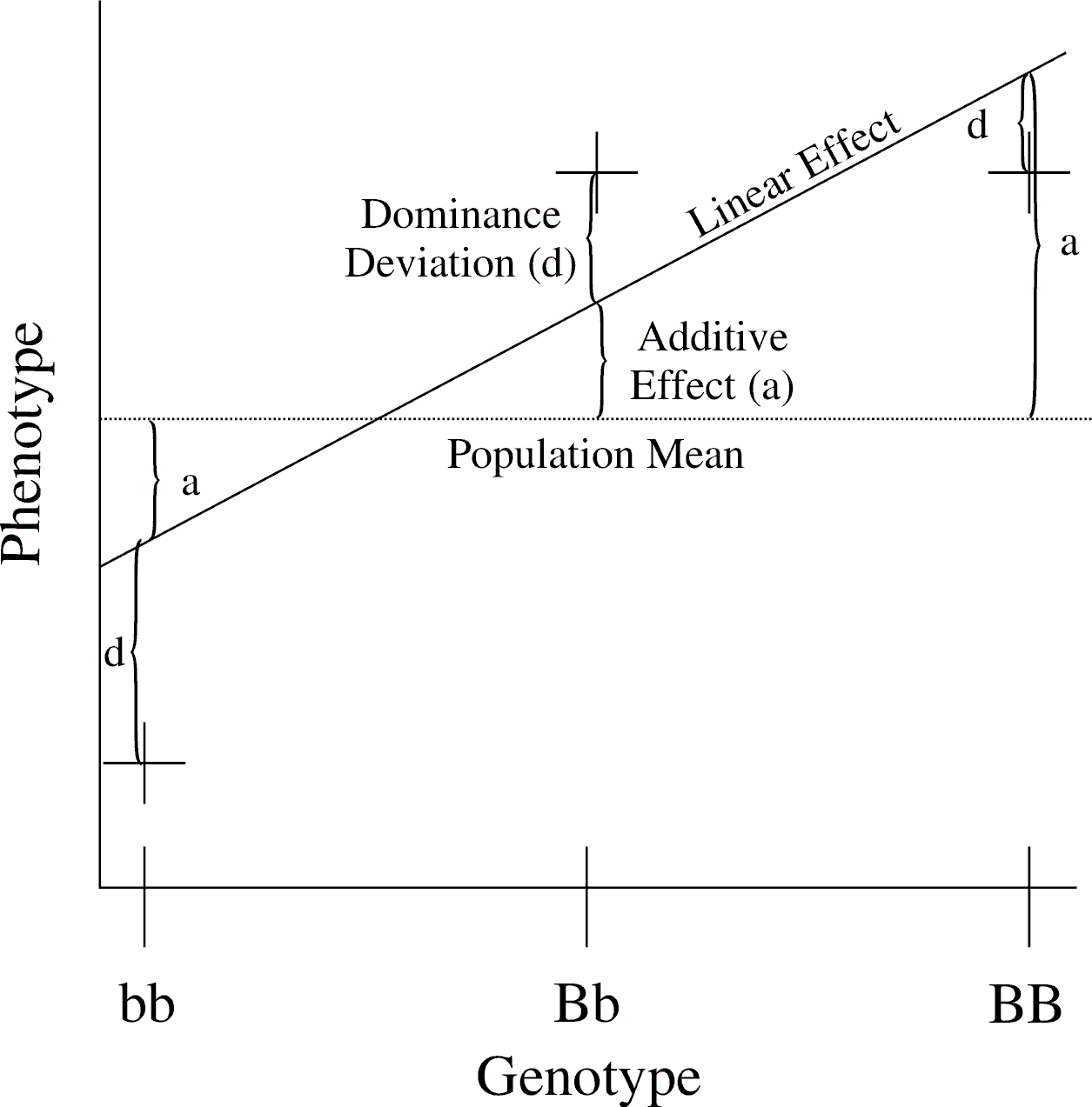 Illustration of relationship between additive effects and dominance deviations. Drawing made by me.